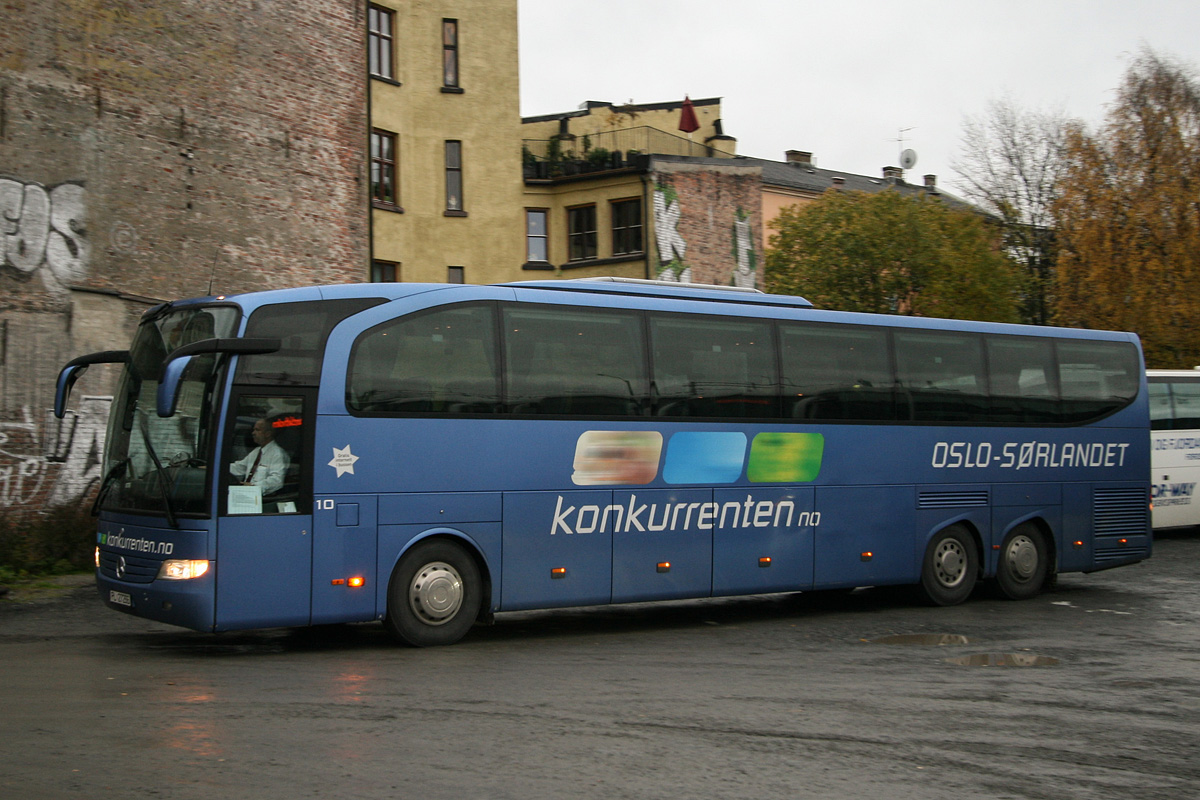 Mercedes-Benz Travego for Konkurrenten.no in Oslo.